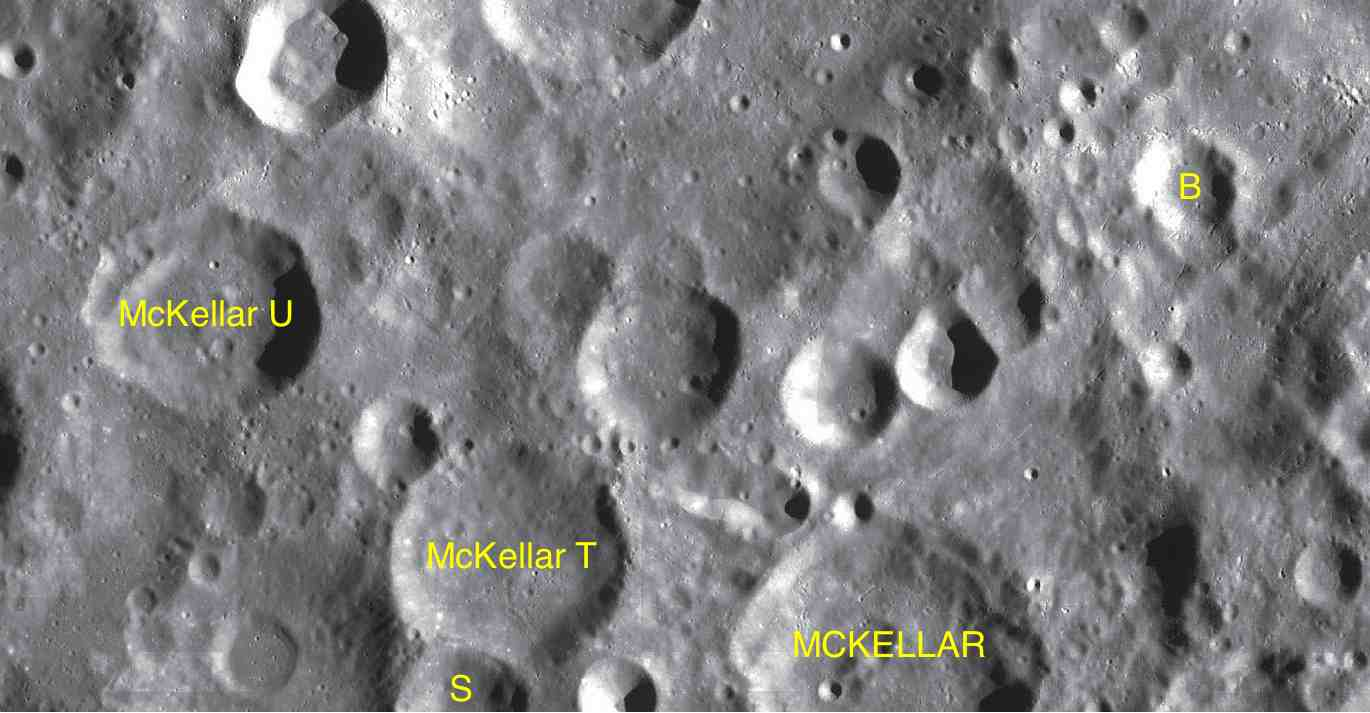 Parts of the charts LAC-86, LAC-87 used for the presentation